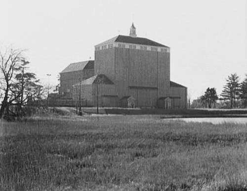 Photo of the American Shakespeare Theatre building in Stratford, CT.